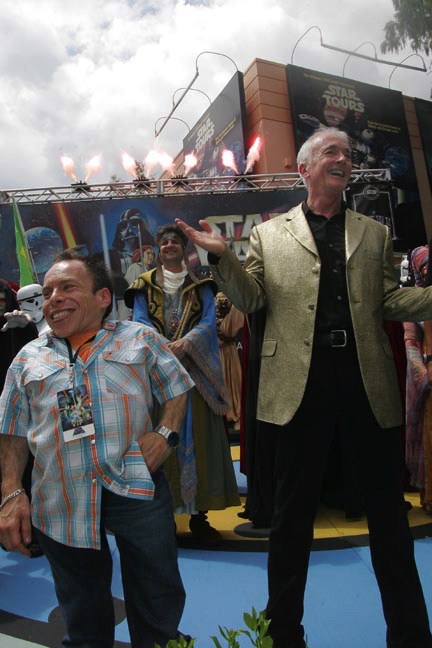 Warwick Davis and Anthony Daniels greet the large crowd as the fireworks are fired from the Rebel Stage (Disney's Hollywood Studios, Florida, USA). Photo by Ron Riccio. For video coverage of the fourth and final Disney Weekend of 2007, click here.